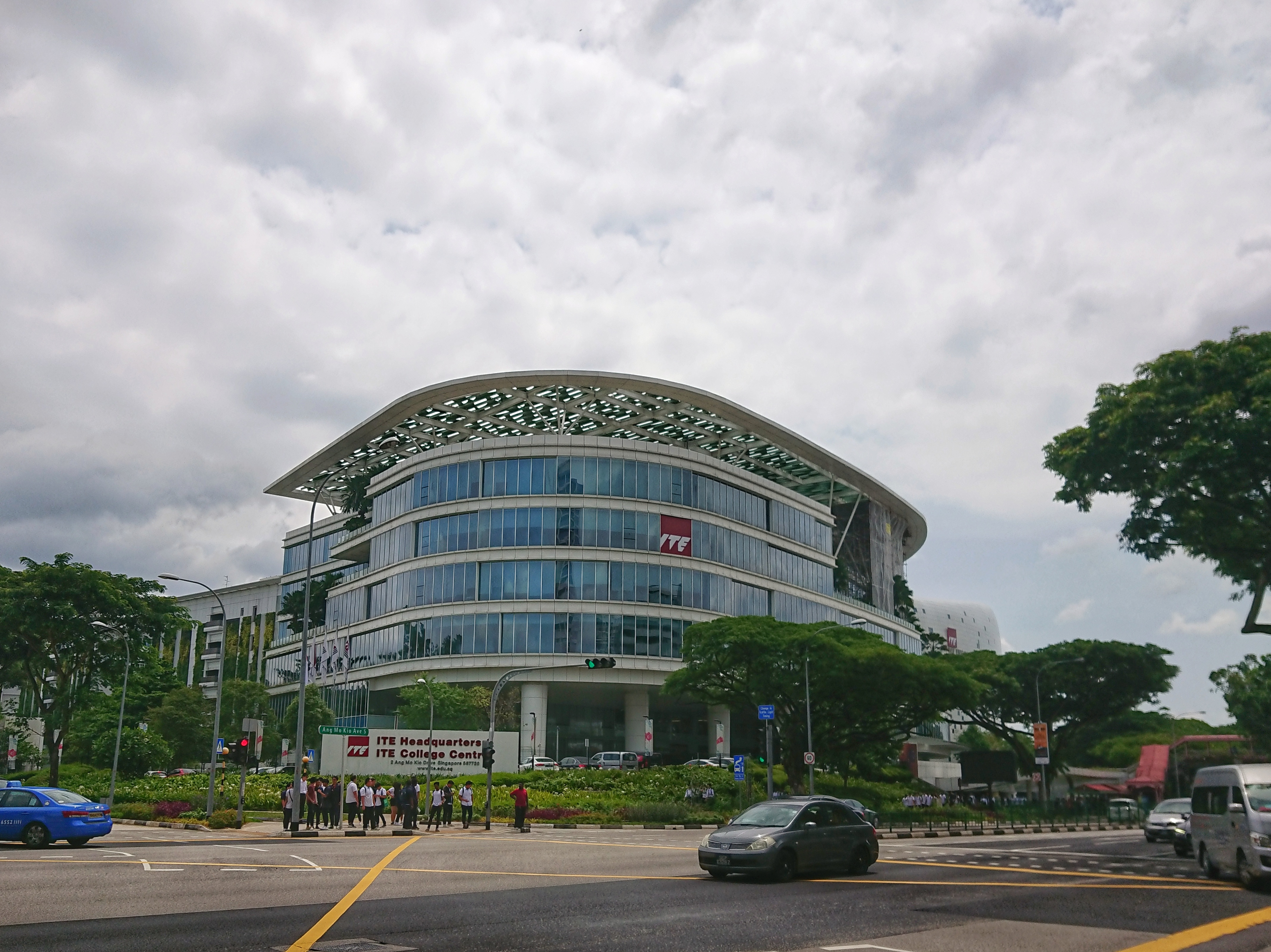 ITE College Central located in Ang Mo Kio. Taken with Xperia XZ Premium.